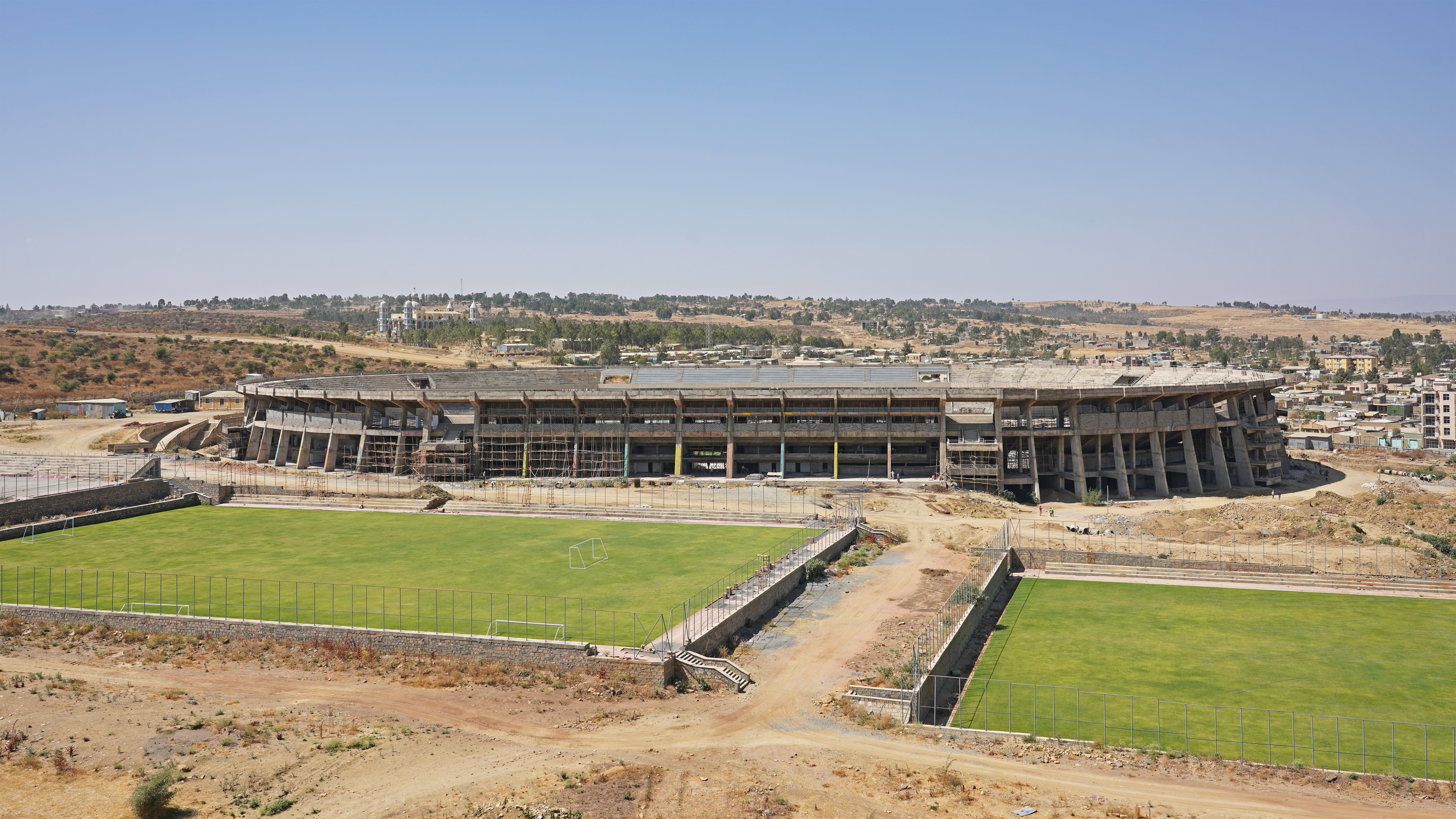 Tigray Stadium in Mekele, Ethiopia